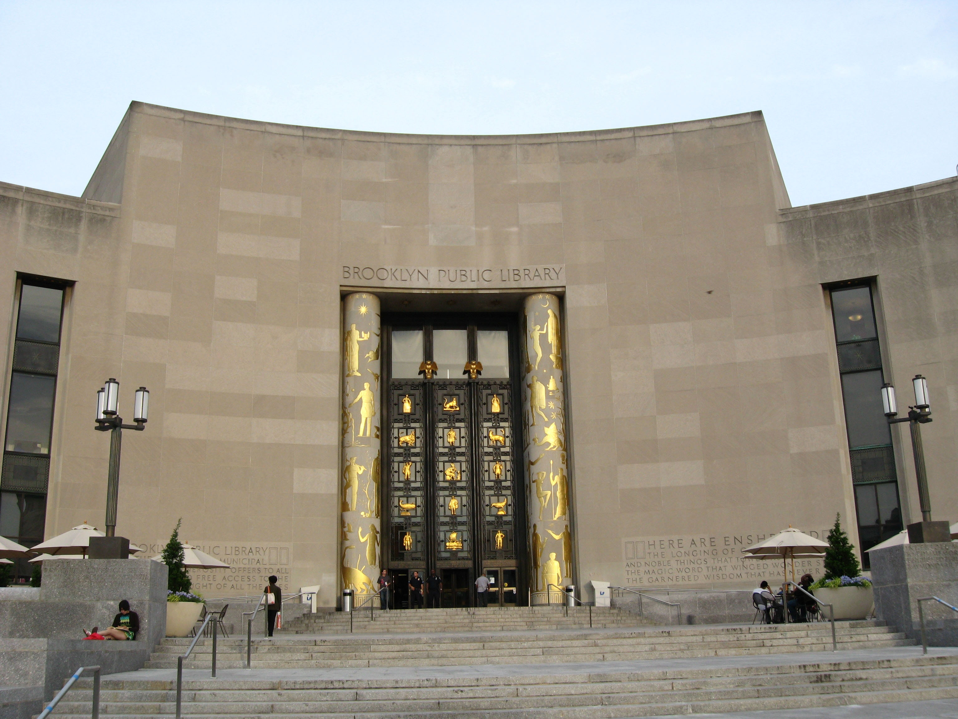 Front door of Brooklyn Public Library at sunset June 3 2008.